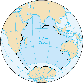 CIA map of Indian Ocean (File:Indian Ocean-CIA WFB Map.png) with IHO boundaries [1]